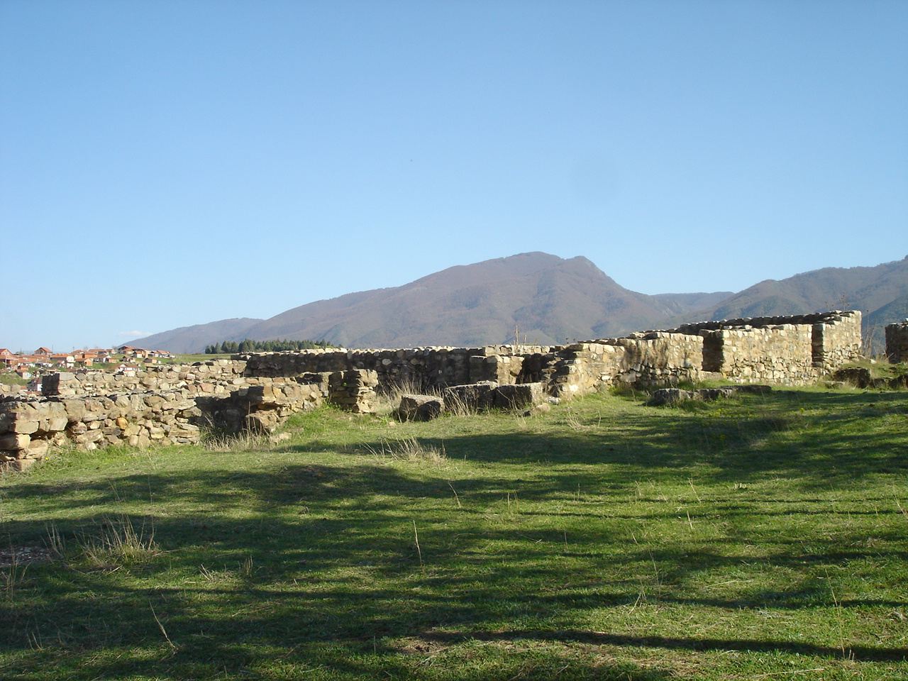 Chupino peak of Plackovica Mountain viewed from Vinica Fortress, Macedonia